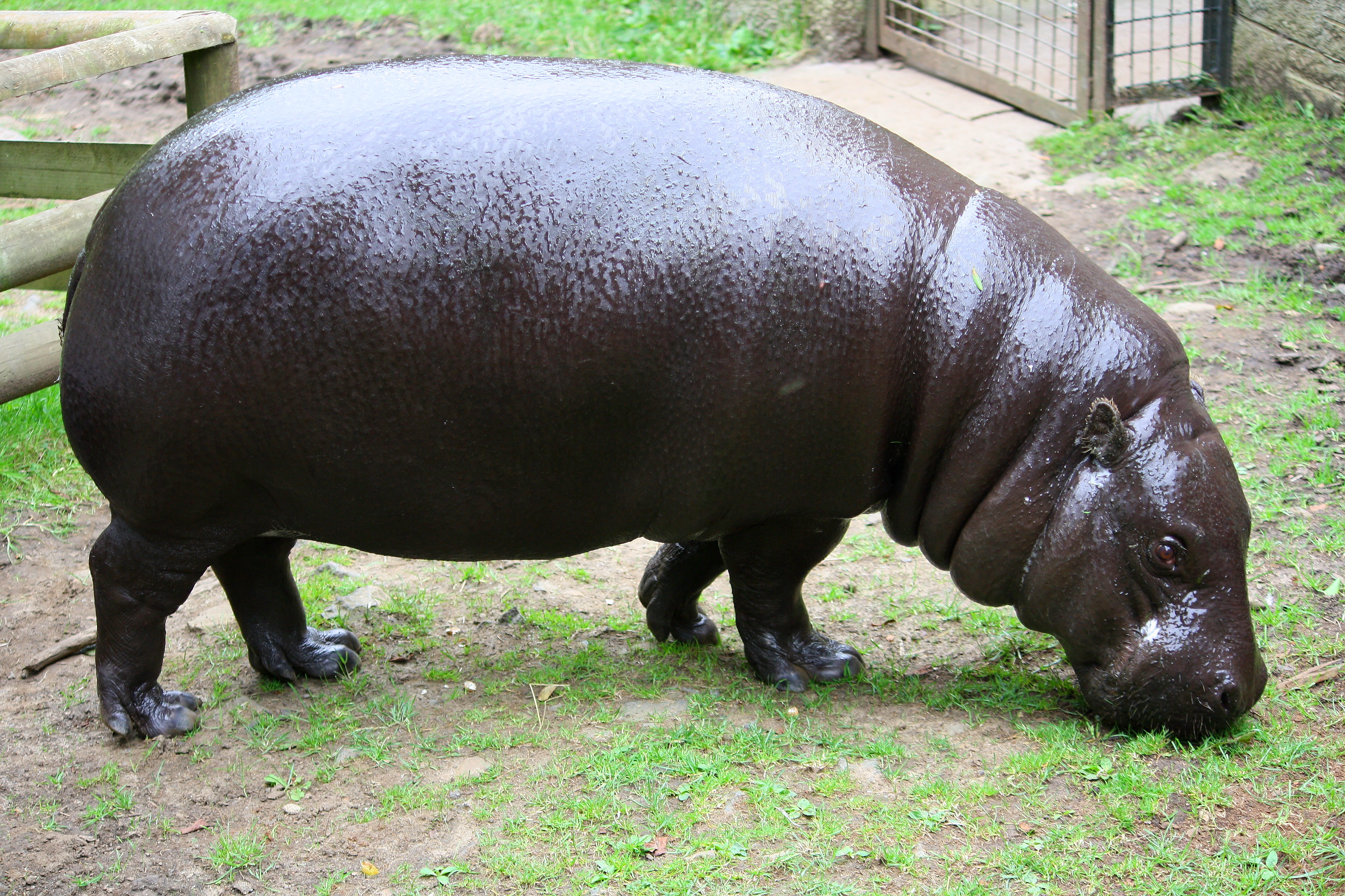 Pygmy hippopotamus (Hexaprotodon liberiensis) in Edinburgh Zoo, Scotland.